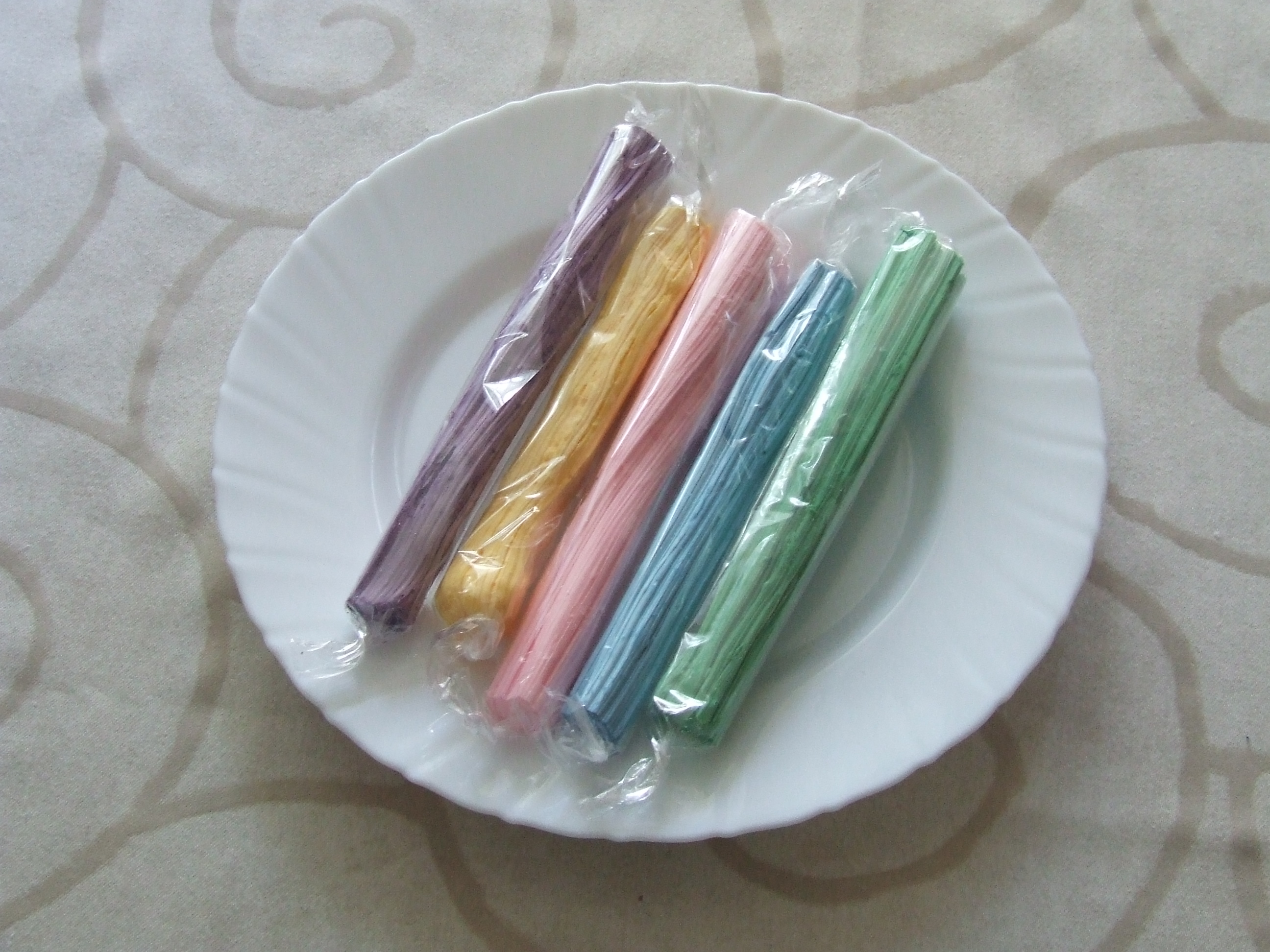 Sweet sugar sticks.